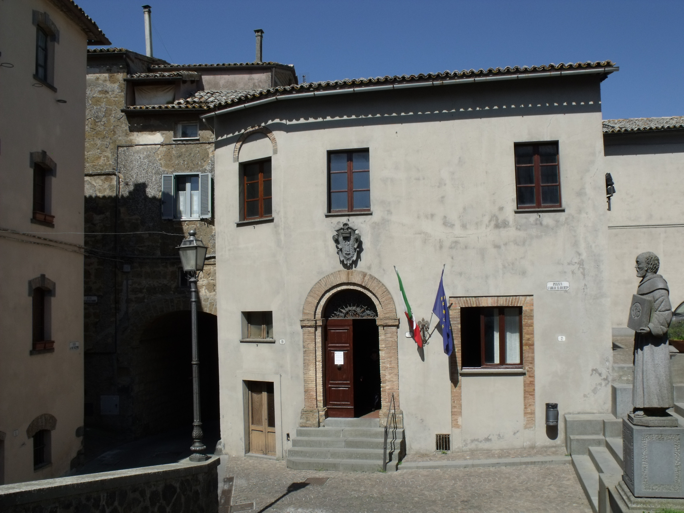 Townhall of Porano, Province of Terni, Umbria, Italy